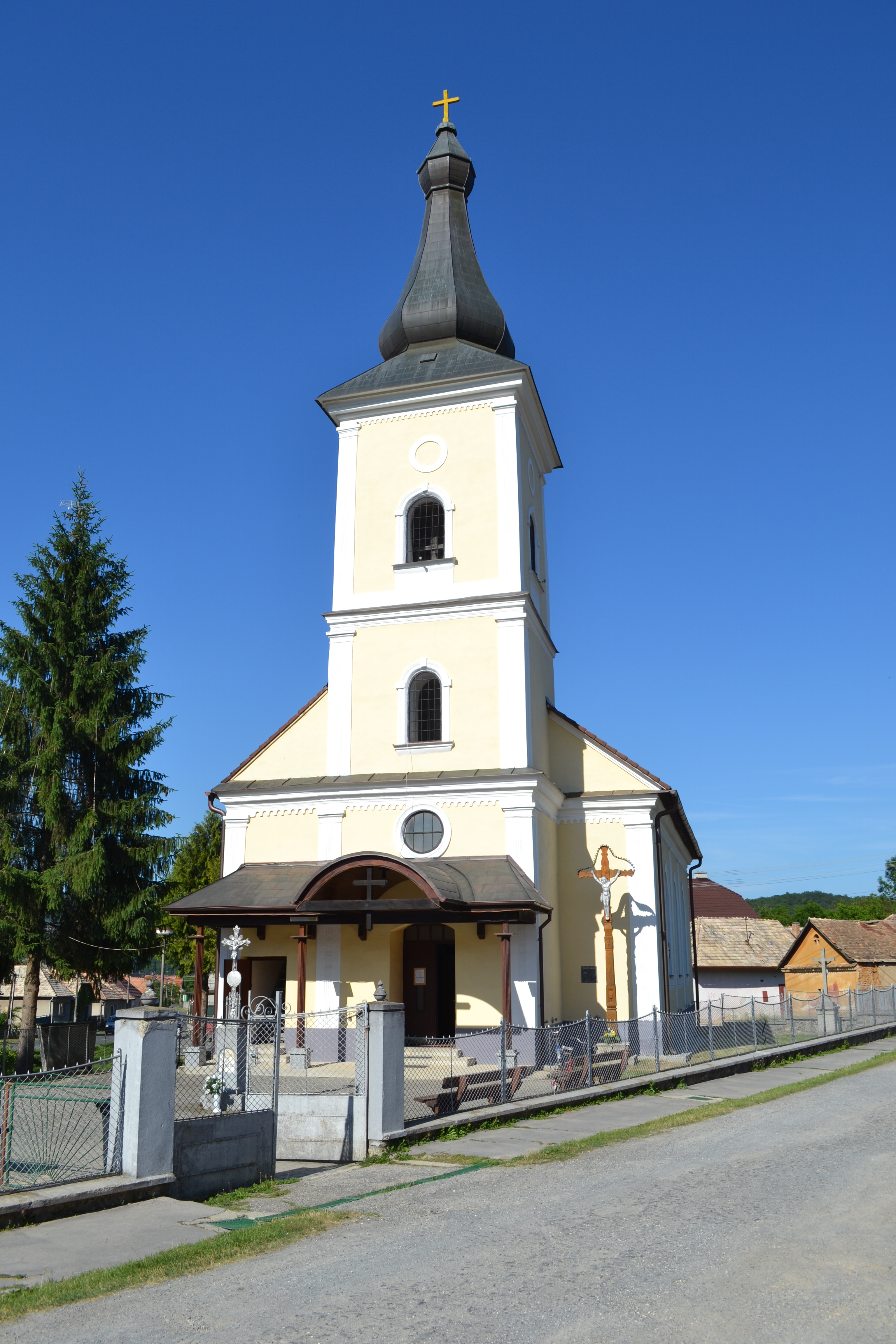 Roman Catholic Church of St. Francis in Ružiná